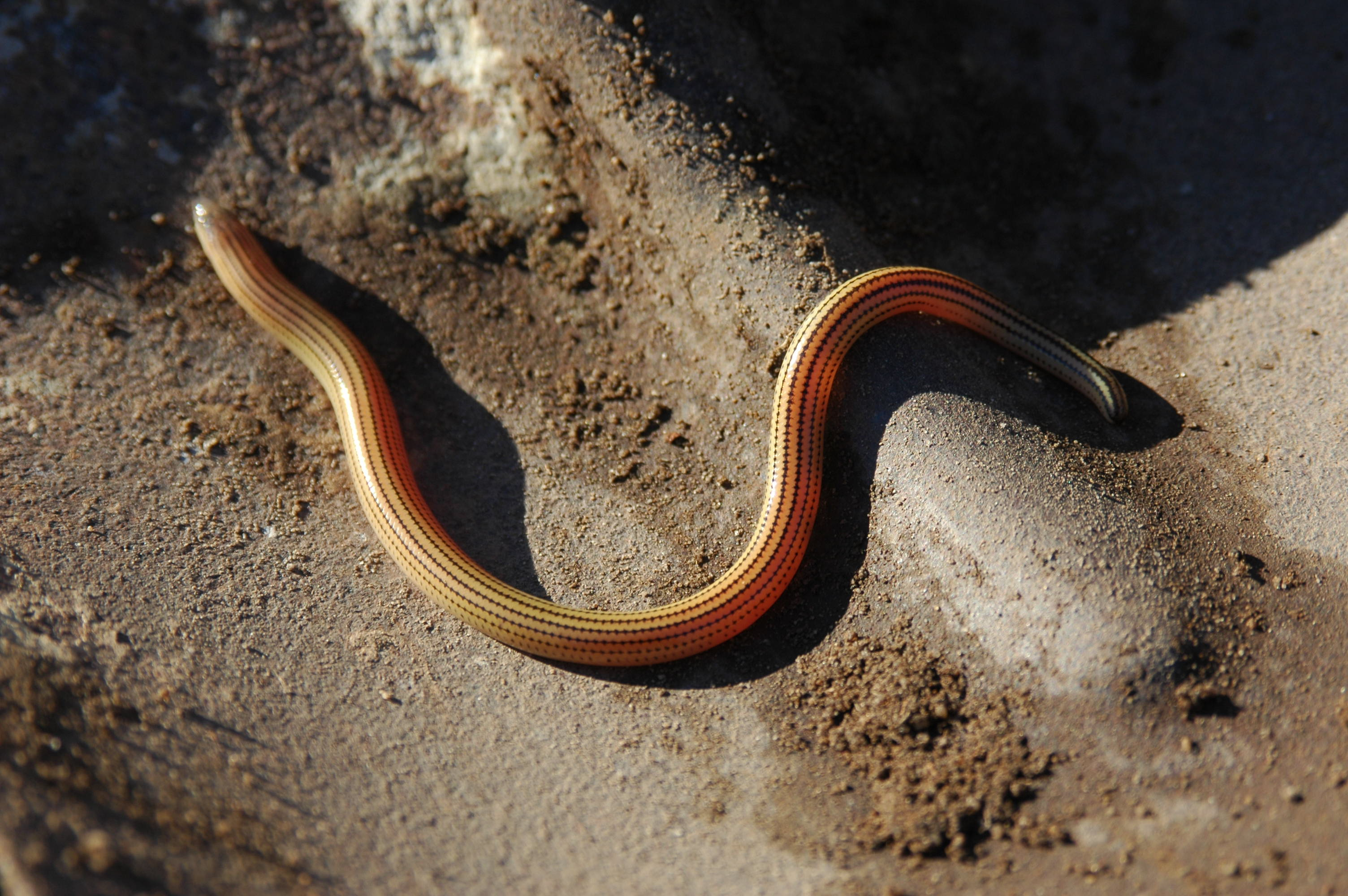 Anguidae in Hermanus (South Africa}